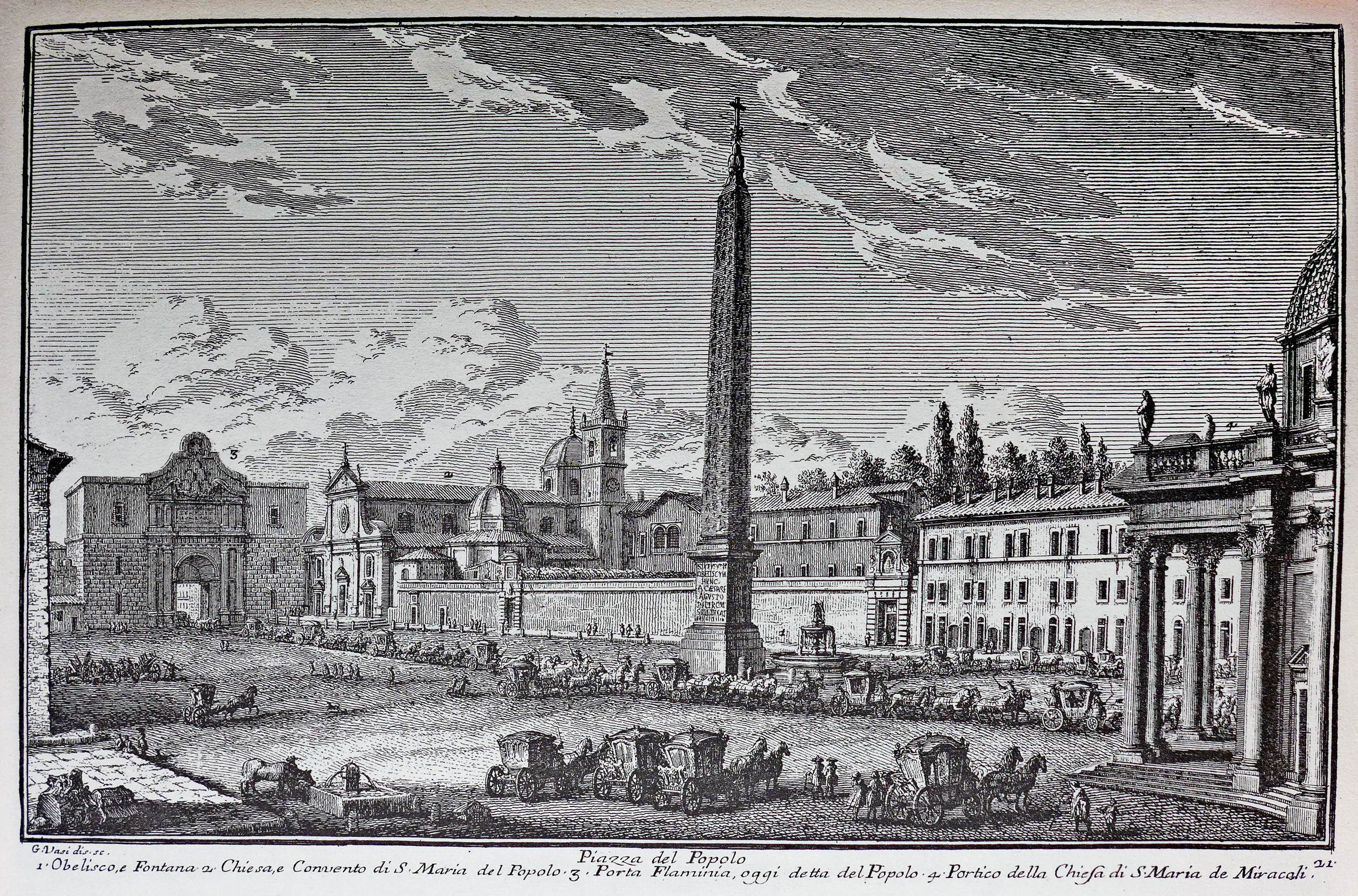 Rome, Piazza del Popolo, Engaving Giuseppe Vasi 1752